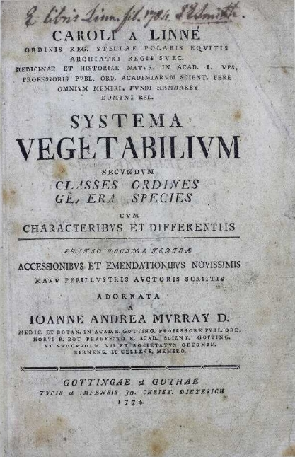 The title page of the first edition of the book Systema Vegetabilium (1774), the 13th edition of the botanical part of the book Systema naturæ by a Swedish scientist Carl Linnaeus (1707-1778)